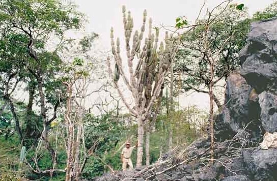 Type locality Goias Brasil